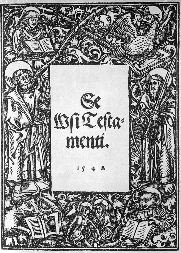 The front page of the first Finnish translation of the New Testament